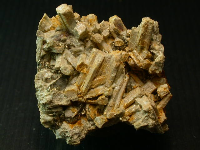 Talc - Locality: Quartz Creek Mine (Rainy Mine; Western States Copper Mine), Quartz Creek, Taylor River & Snoqualmie Districts, King County, Washington, USA - An interesting 3.5 by 3.4 cms group of Talc crystals pseudomorph after Anthophyllite crystals.